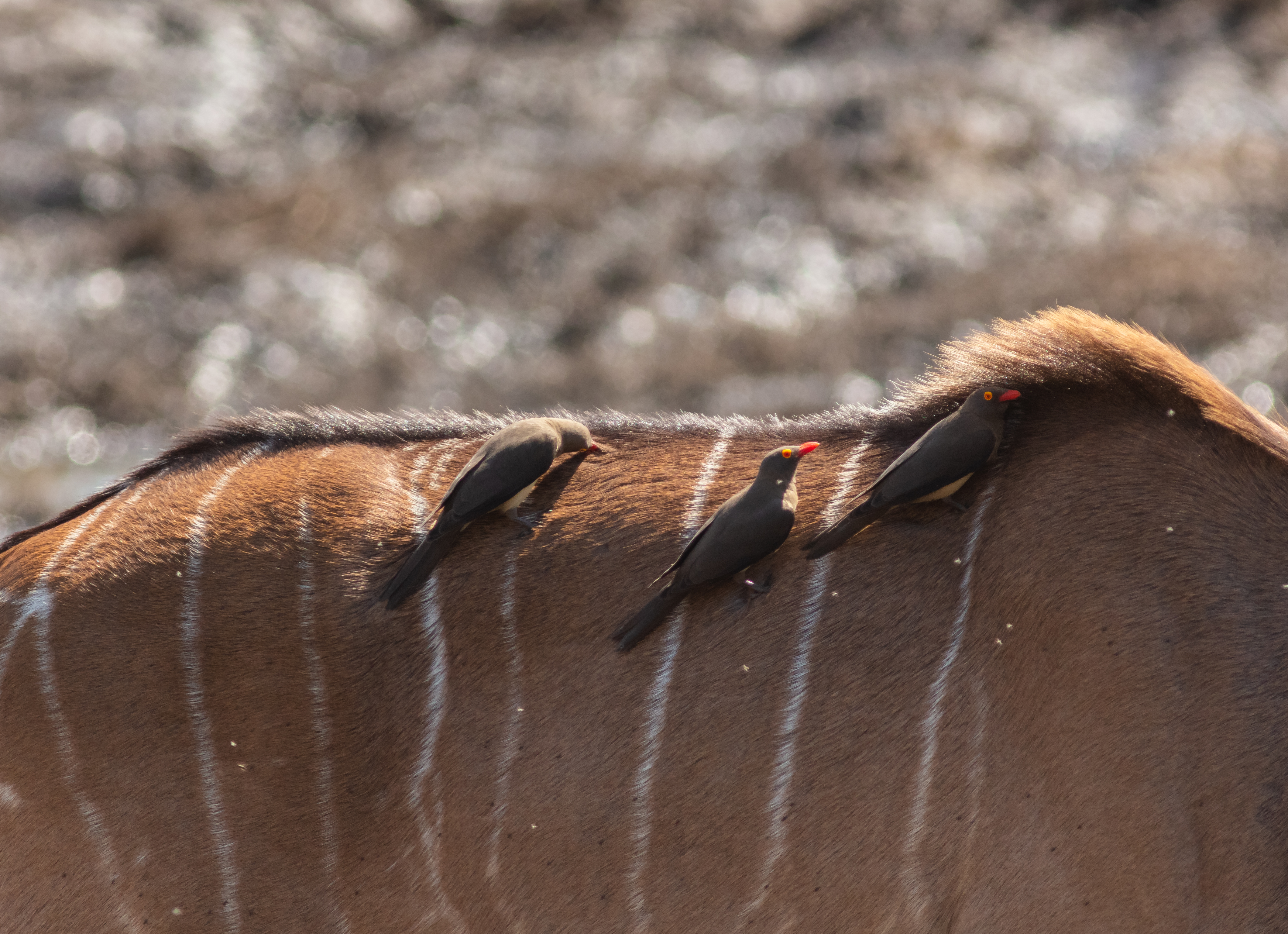 Red-billed oxpecker (Buphagus erythrorhynchus) on the back of a greater kudu (Tragelaphus strepsiceros), Chobe National Park, Botswana